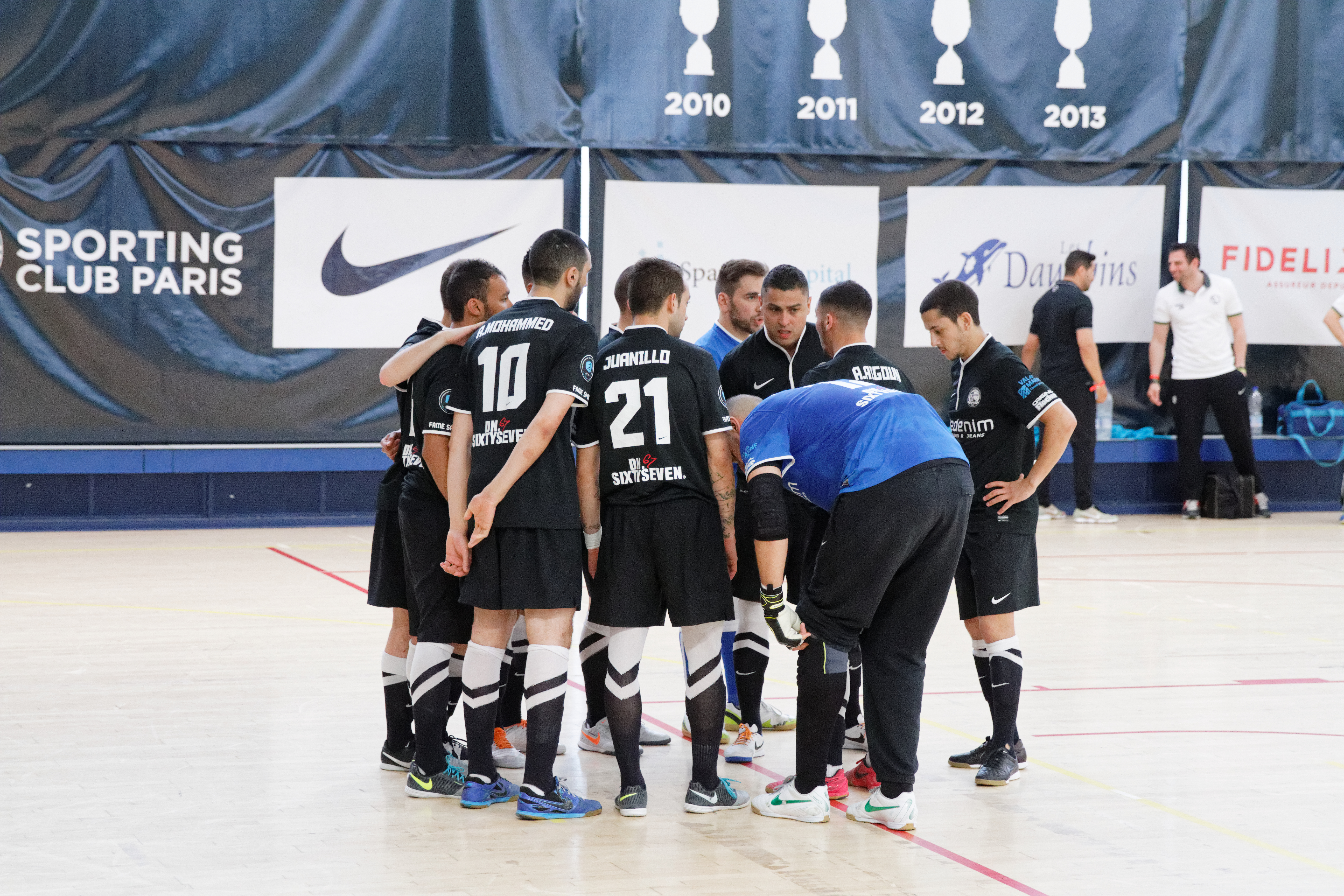 France futsal championship. Play-off. Sporting Club de Paris vs Kremlin-Bicêtre United.